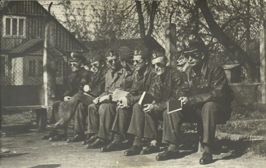 Przed sztabem oficerowie słuchacze, od prawej Rychłowski, Zięba, Iwanowski, Molka, Tyczyński, Samczuk, Mielec, 1960